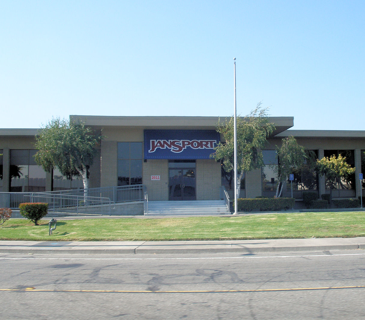 Jansport headquarters in San Leandro.